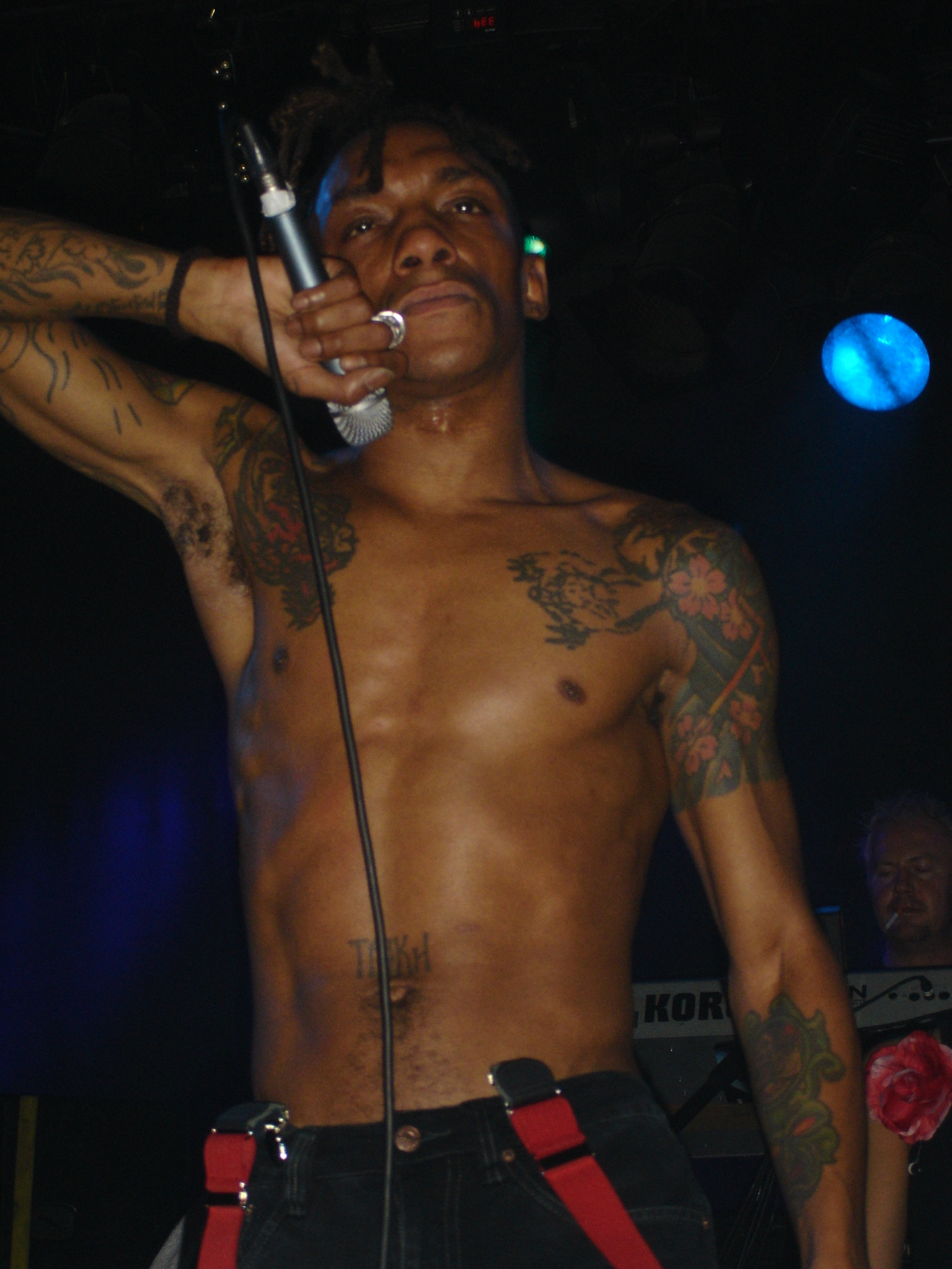 Tricky, Sala Bikini (Barcelona), november 5, 2008